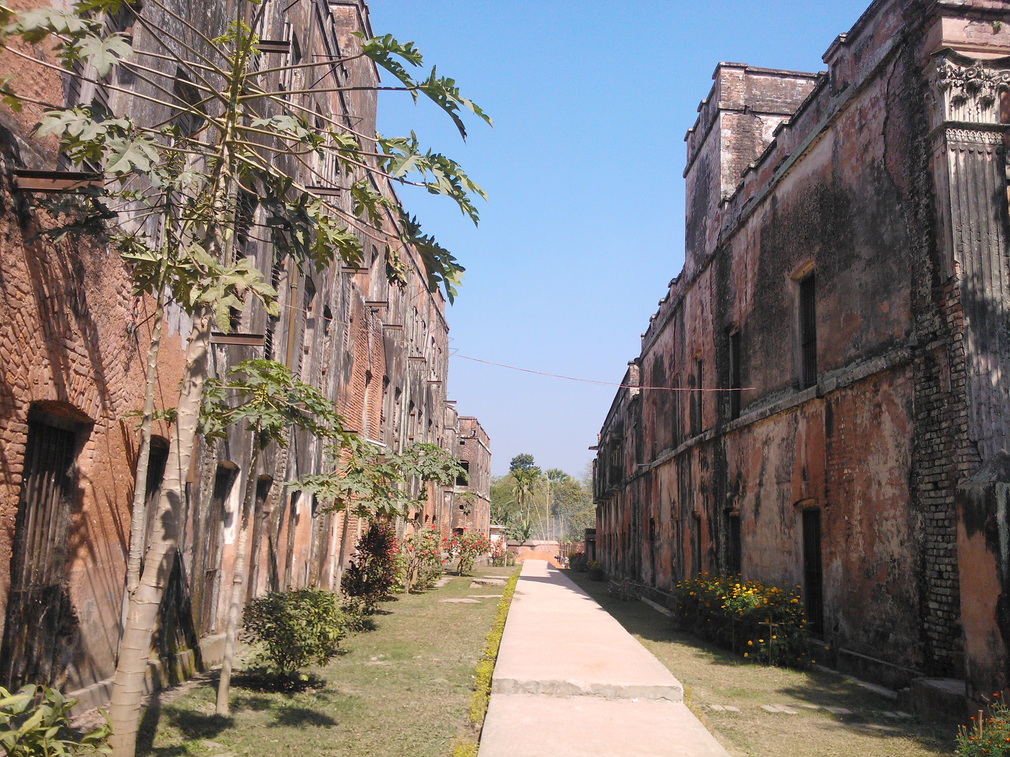 Baliati Palace, Saturia, Manikganj, Bangladesh.